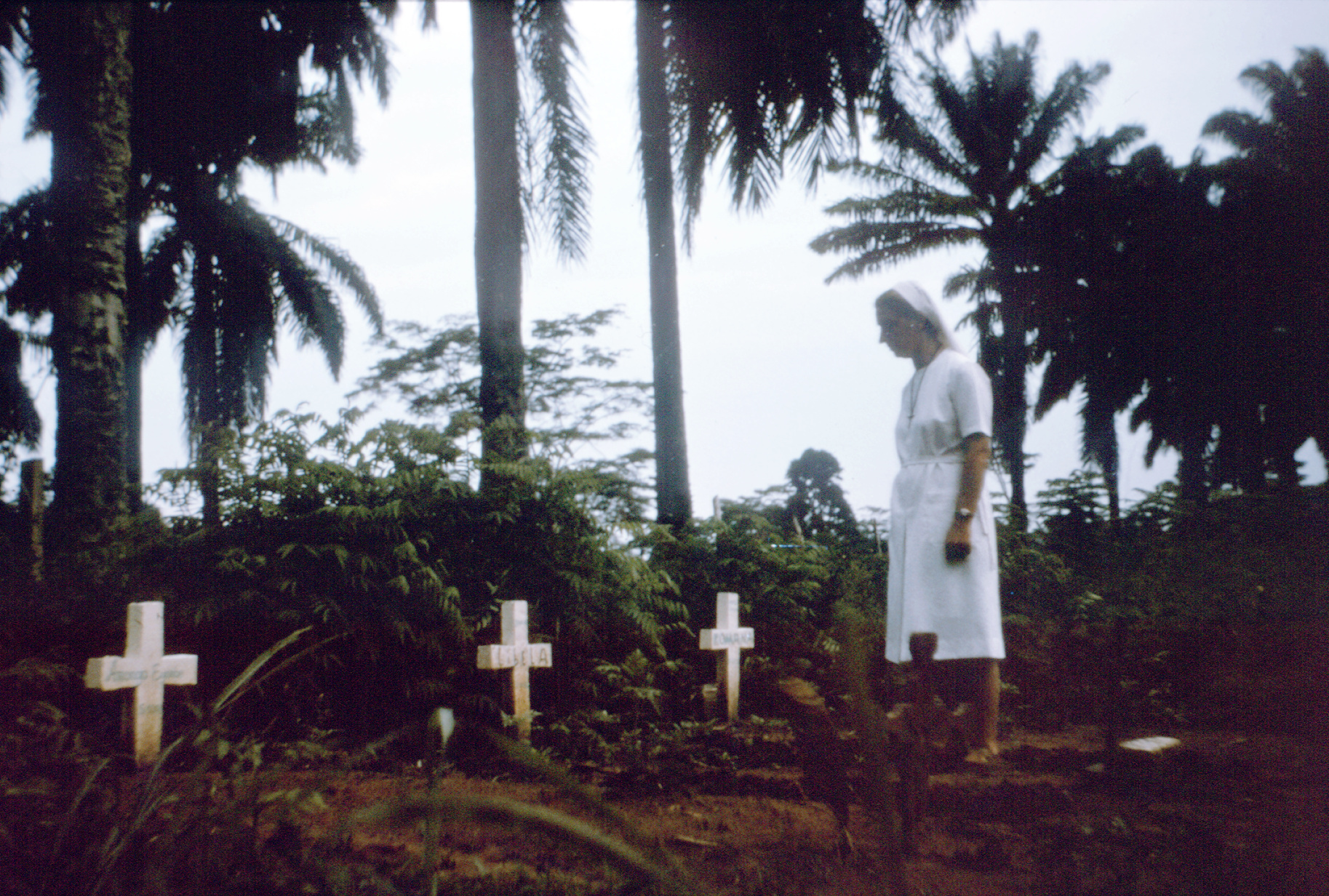 "This photograph showed Sister Marietta as she walked among the grave sites of her colleagues that had perished during the Zaire (now known as the Democratic Republic of the Congo) Ebola outbreak of August, 1976. The Flemish nuns, and the African hospital Staff of a Yambuku, Zairian mission hospital treated the first known patient of one of the world’s deadliest diseases, Ebola hemorrhagic fever (Ebola HF). The virus traveled quickly, and a large number of the mission members and patients died in the fall of 1976."